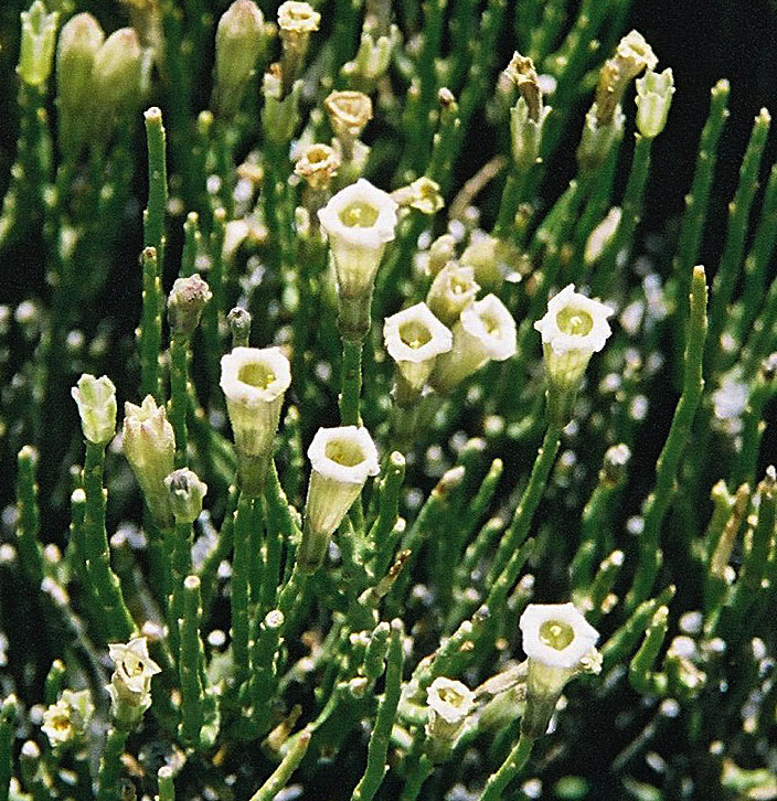 From the steppes of southern Argentina. In context at